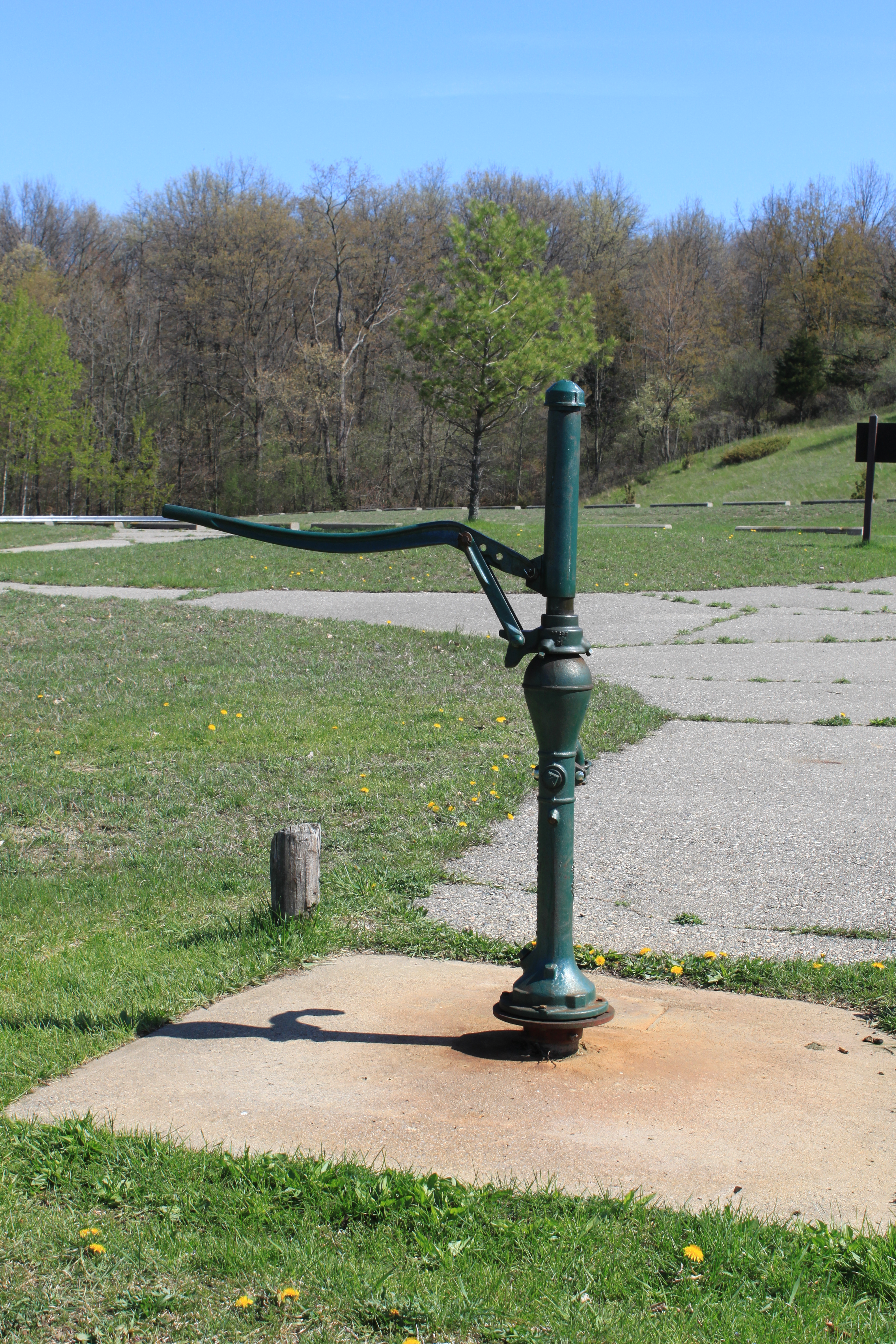 "Monitor" brand cast iron hand well pump, manufactured by Baker Manufacturing Company of Evansville, Wisconsin, at the Highland State Recreation Area, Highland, Michigan